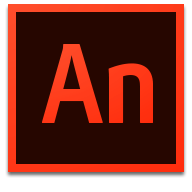 This image shows the computer icon of Adobe Animate CC 2015.